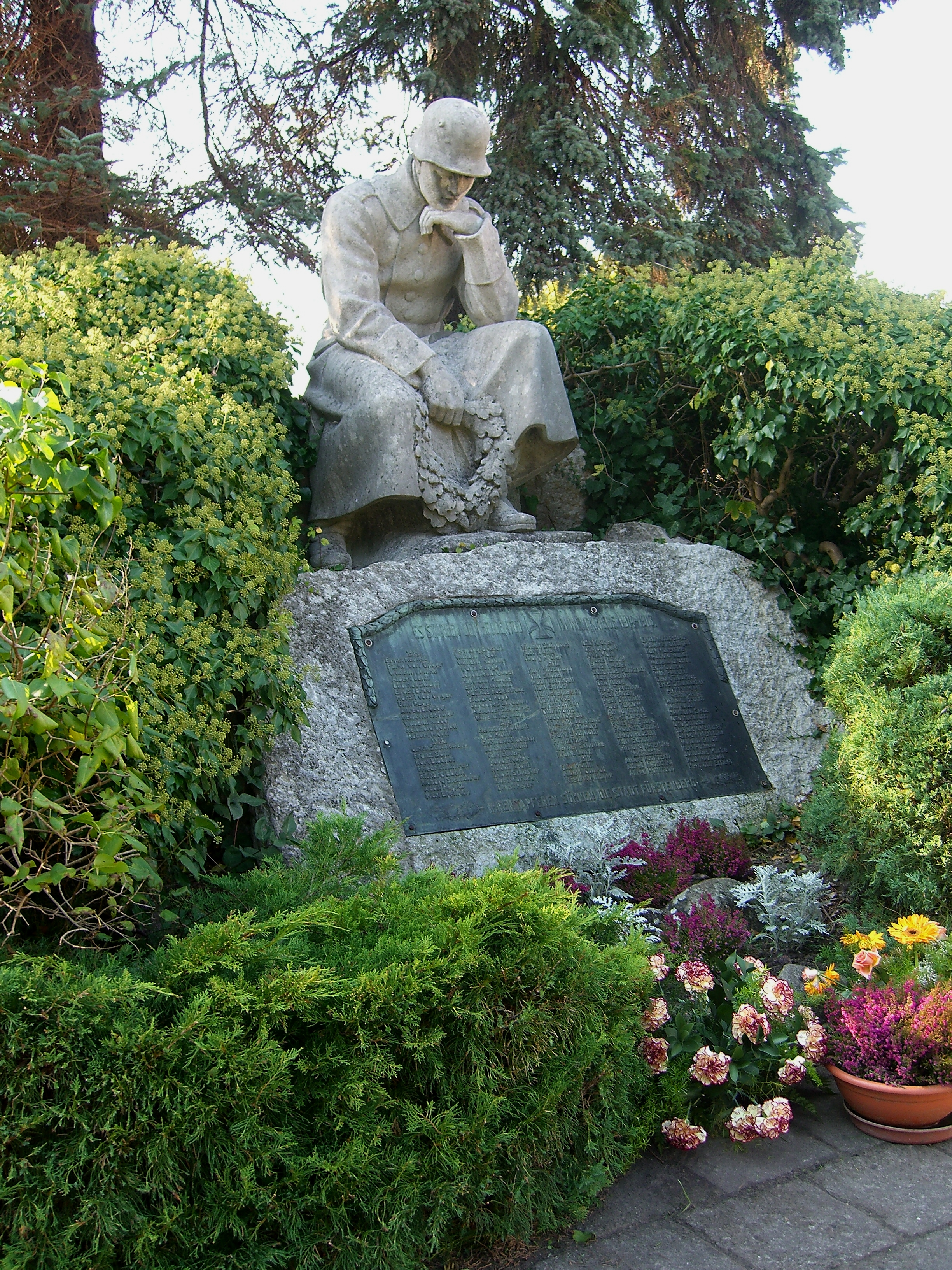 war memorial 1914/18 in Fürstenberg, sculptured by Hans Dammann